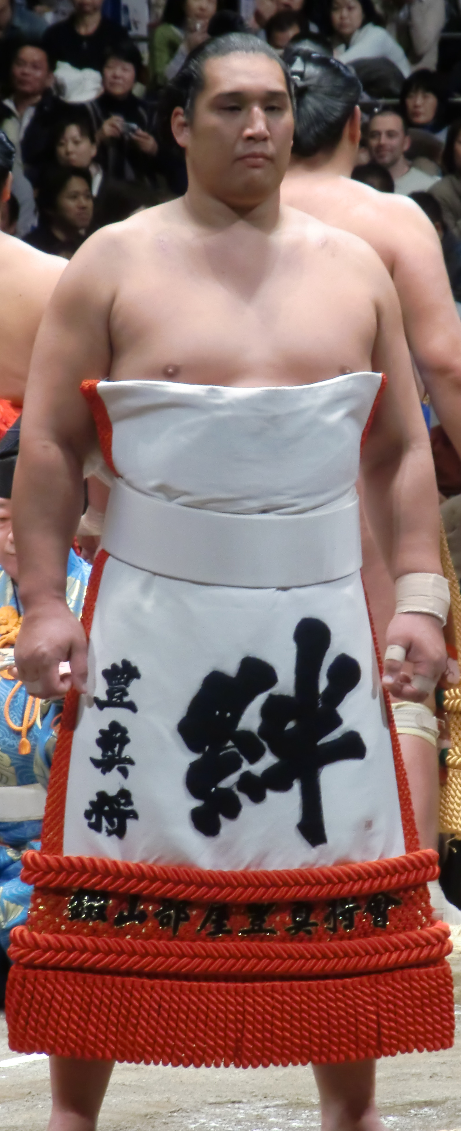 taken at 2012 Jan tournament